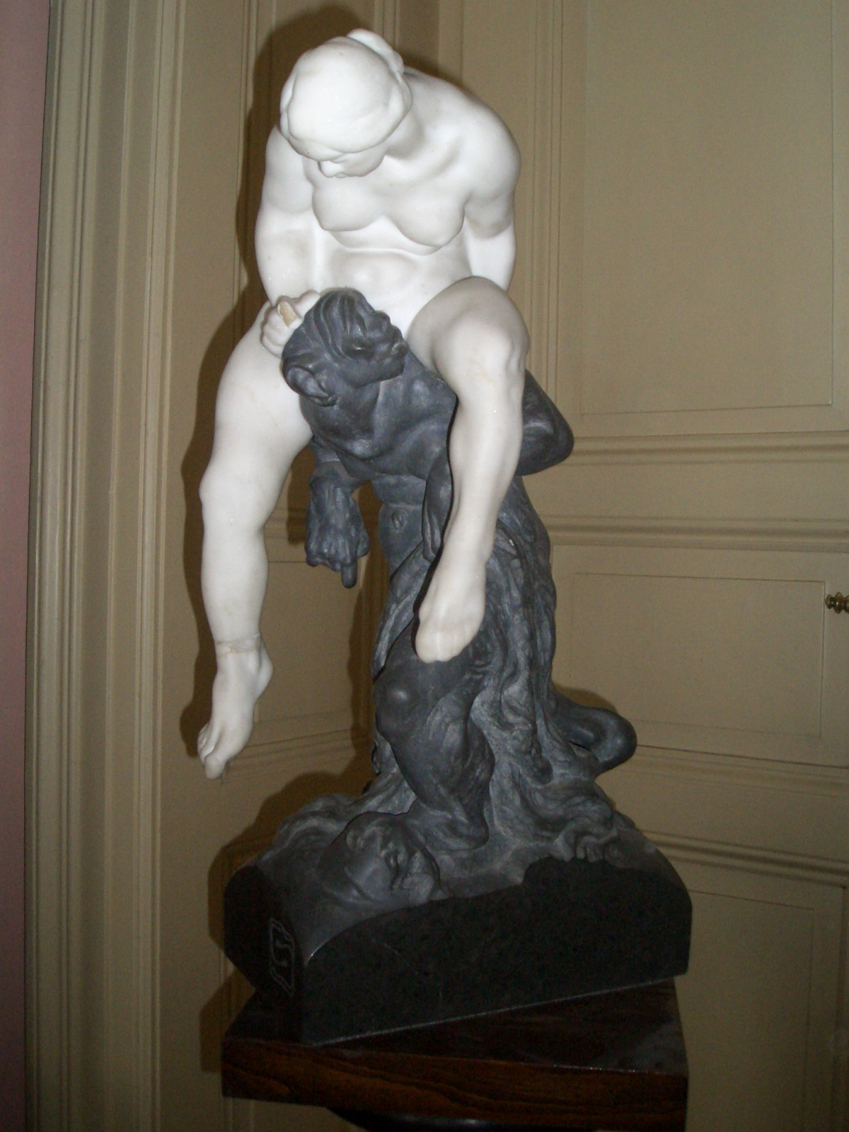 Virgin and devil, a sculpture of Ladislav Saloun